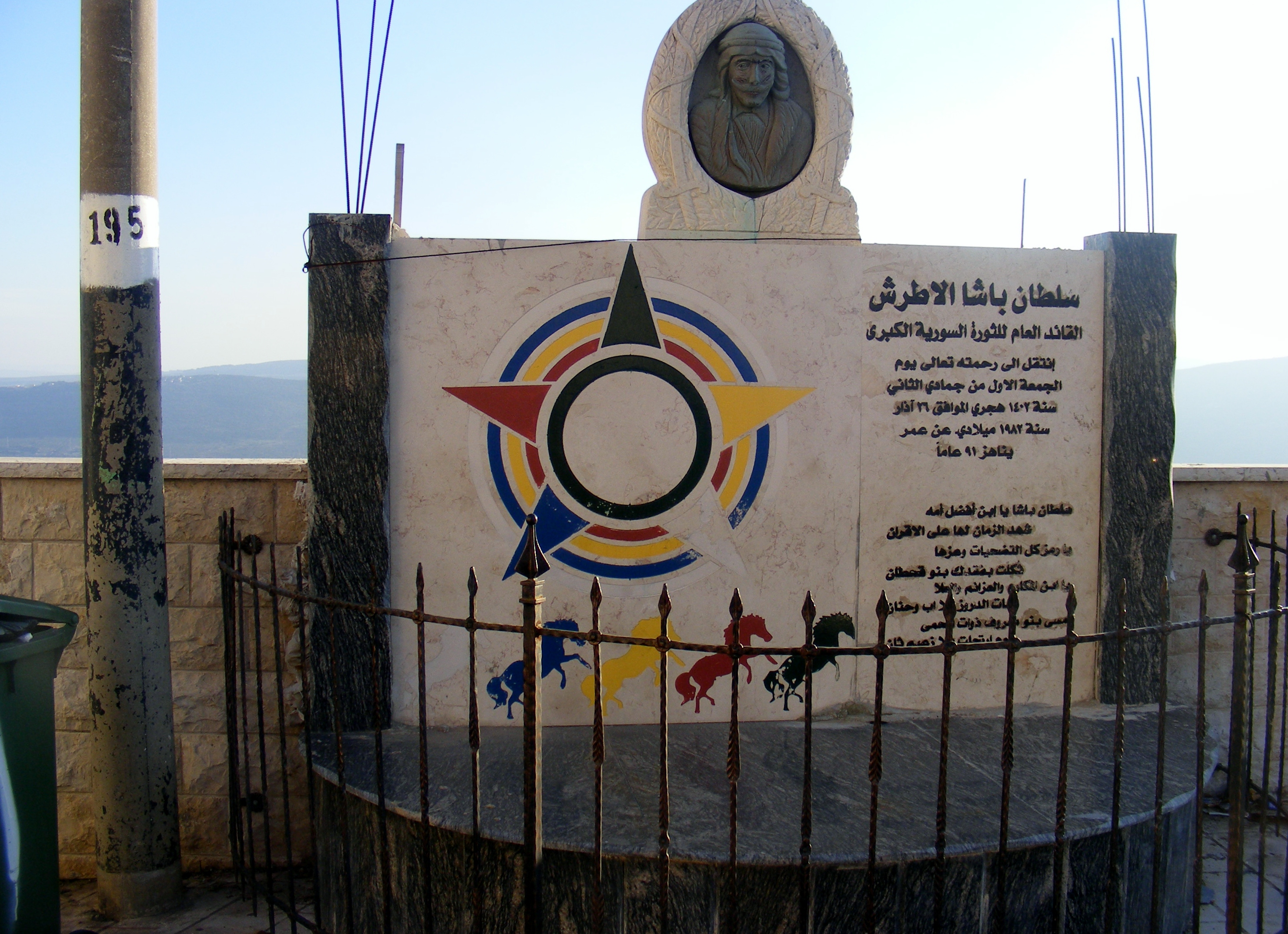 Geography of Israel